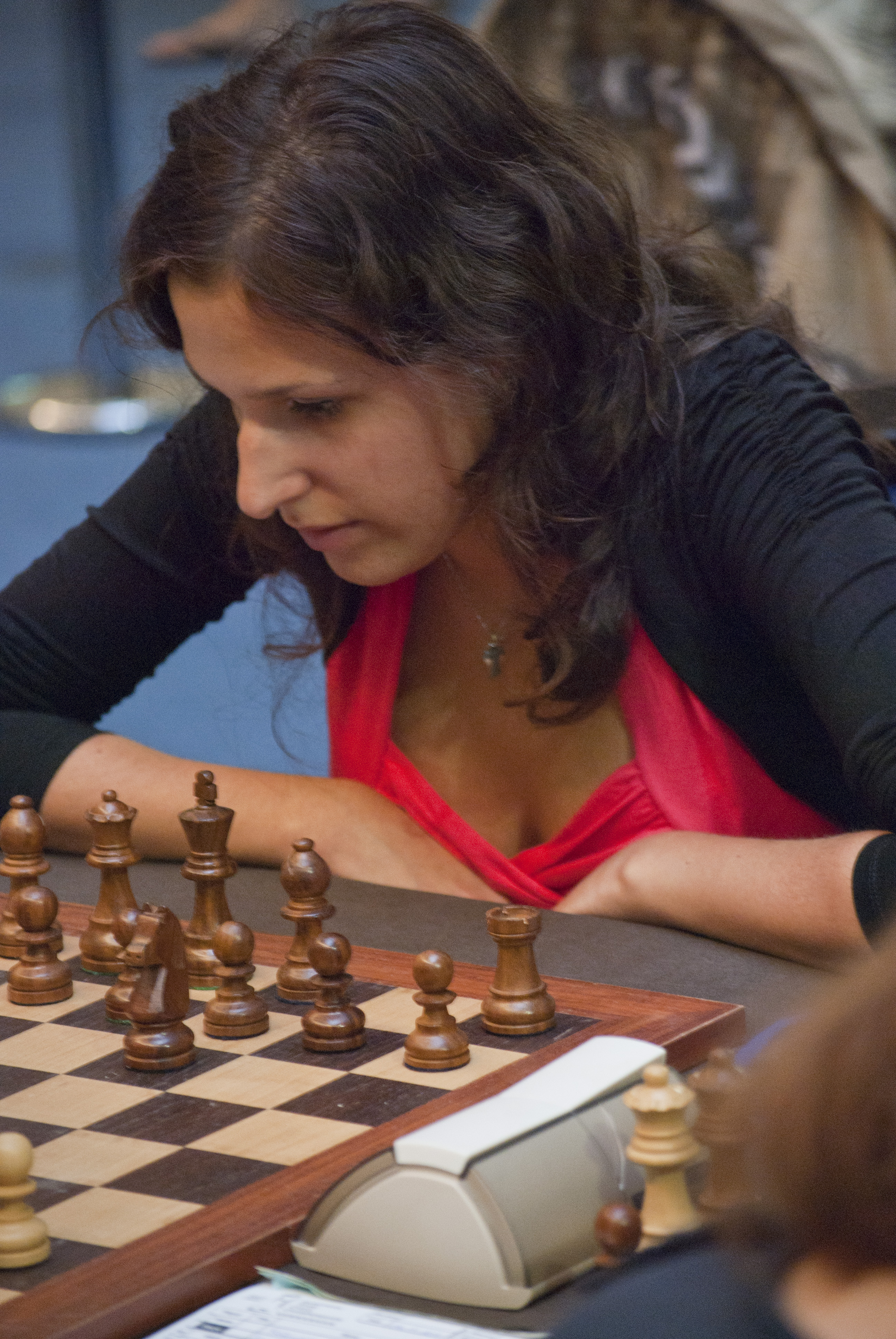 Borka Frančišković on the European Team Chess Club 2011 (ETCC 2011).